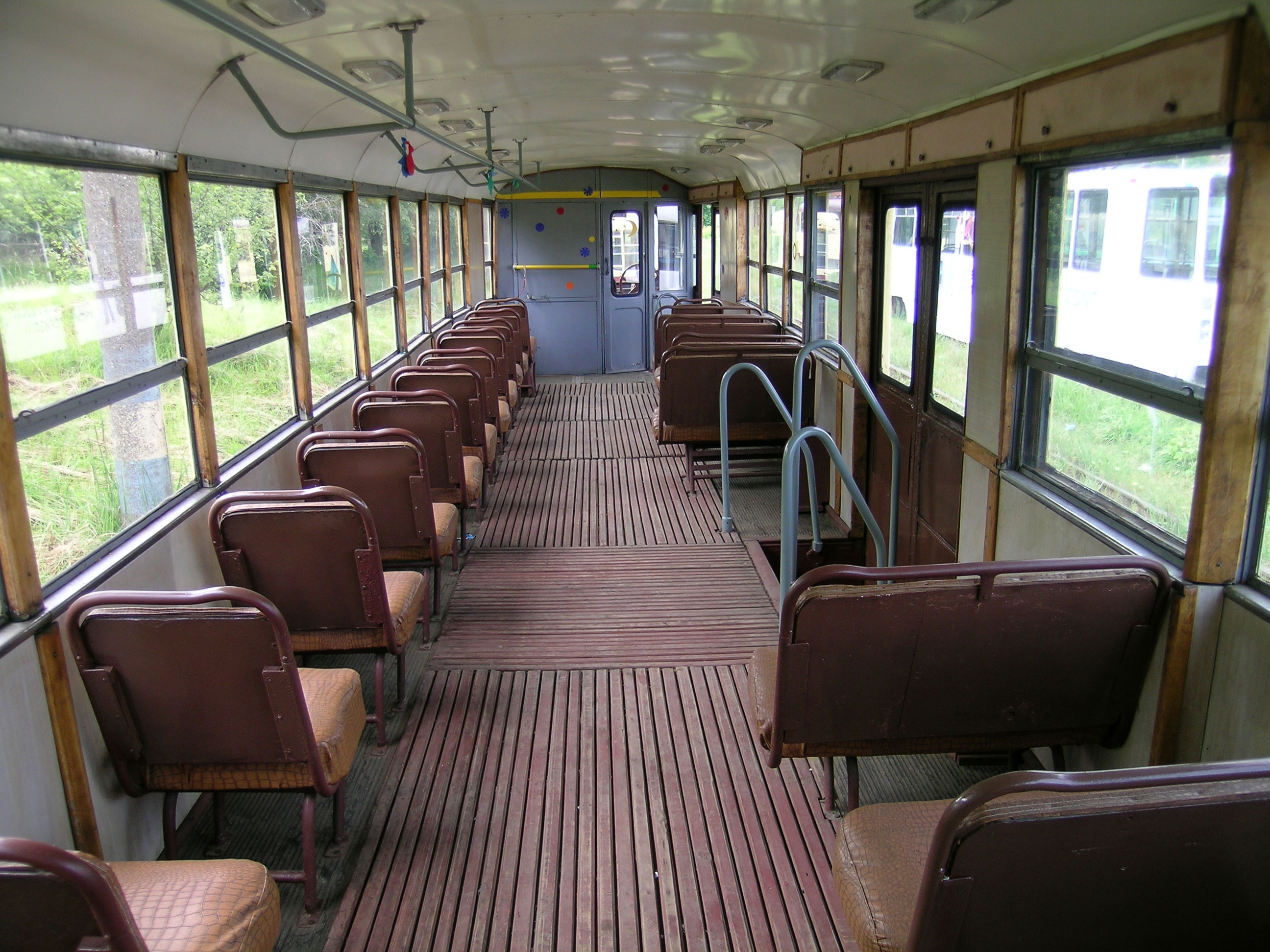 The passengers' compartment of LM-49 tramcar